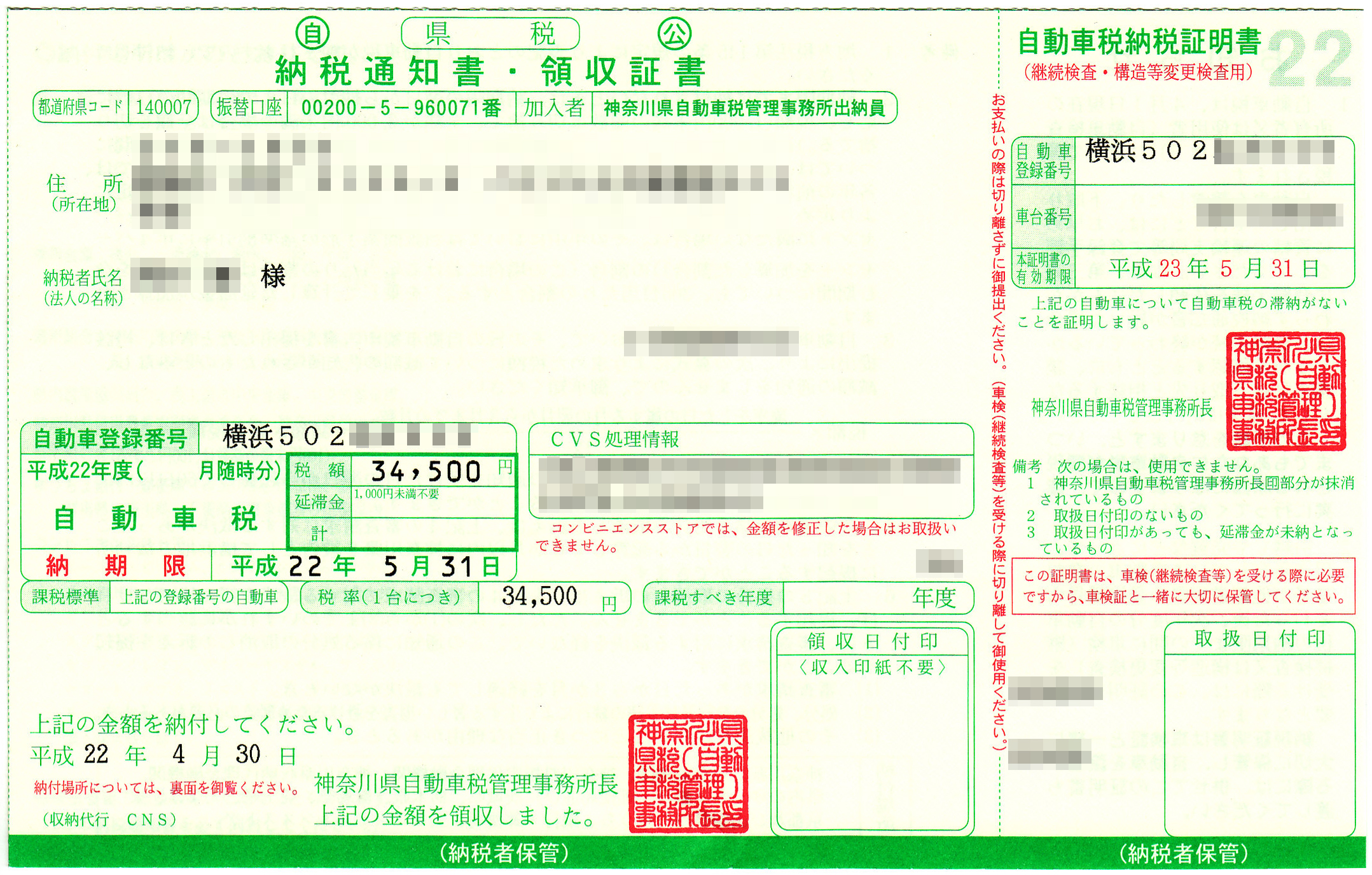 Vehicle tax notice sent from Kanagawa Prefectural Motor Vehicle Tax Office in Japan. The due date for tax payment is May 31, 2010. It is 34,500 Japanese yen per year, which is about $380. The amount of tax depends on engine displacement. The vehicle has a 1300-cc gas engine.